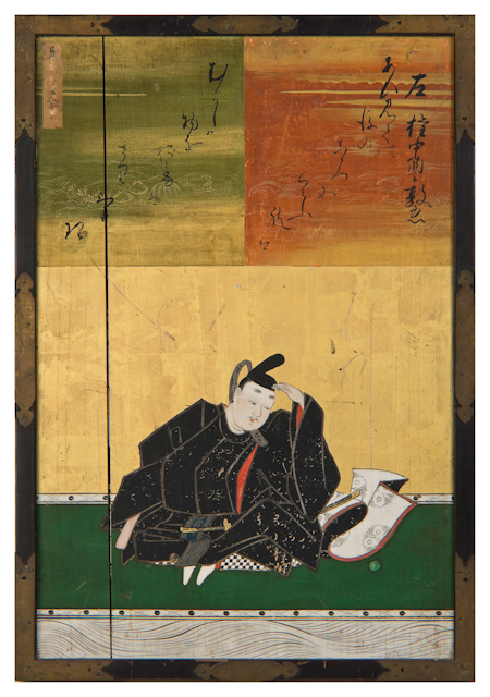 Sanjūrokkasen-gaku (Thirty-six Poetry Immortals framed picture) #14: Gon-Chūnagon Atsutada (Fujiwara no Atsutada)